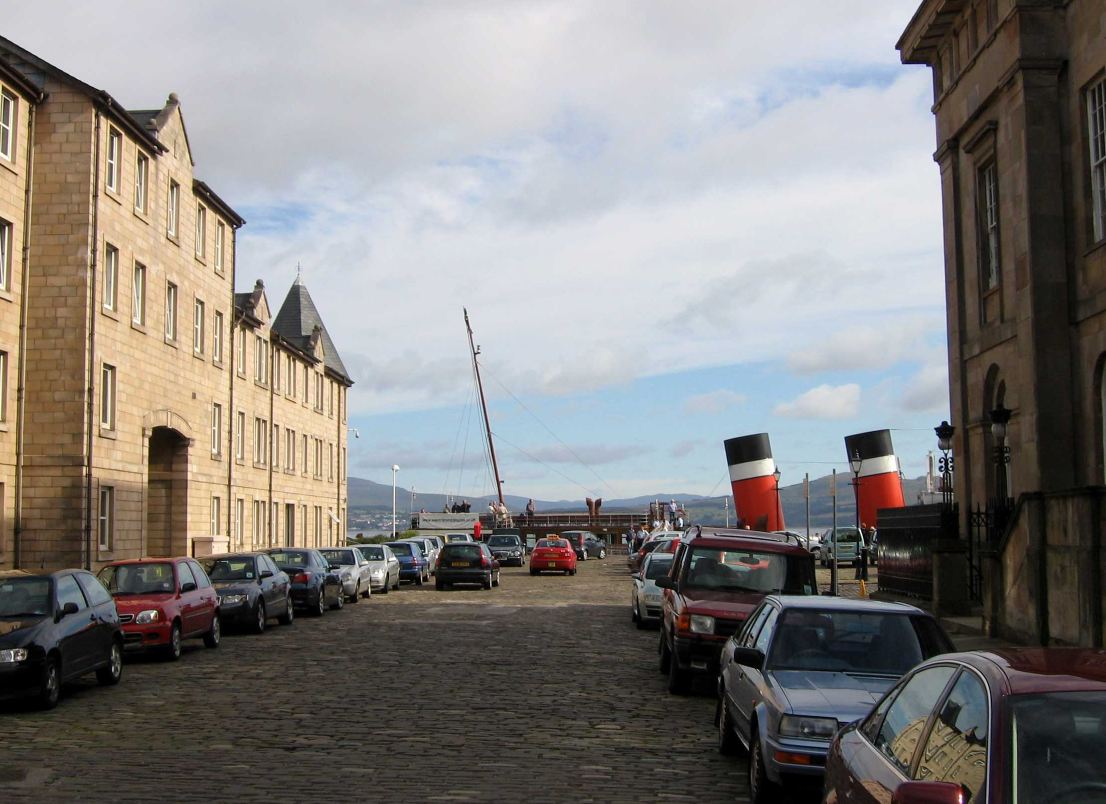 The James Watt College residences forming part of the Waterfront Campus overlooking Custom House Quay, Greenock in Scotland, with the PS Waverley about to set out on a day's cruise on the Firth of Clyde.